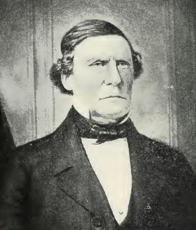 Image of Kenneth Mckenzie, detail, taken from book by Chittenden, 1903